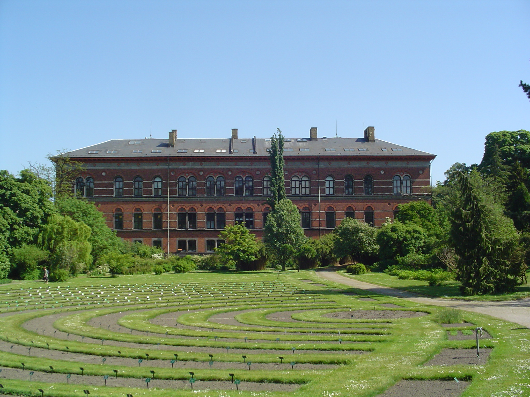 University of Copenhagen Geological Museum. Taken by me on 28/5-2005.